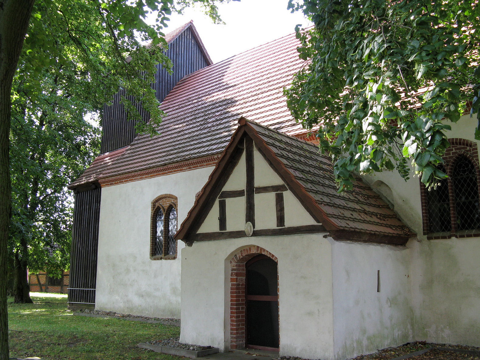 Church in Kieve, disctrict Mecklenburgische Seenplatte, Mecklenburg-Vorpommern, Germany